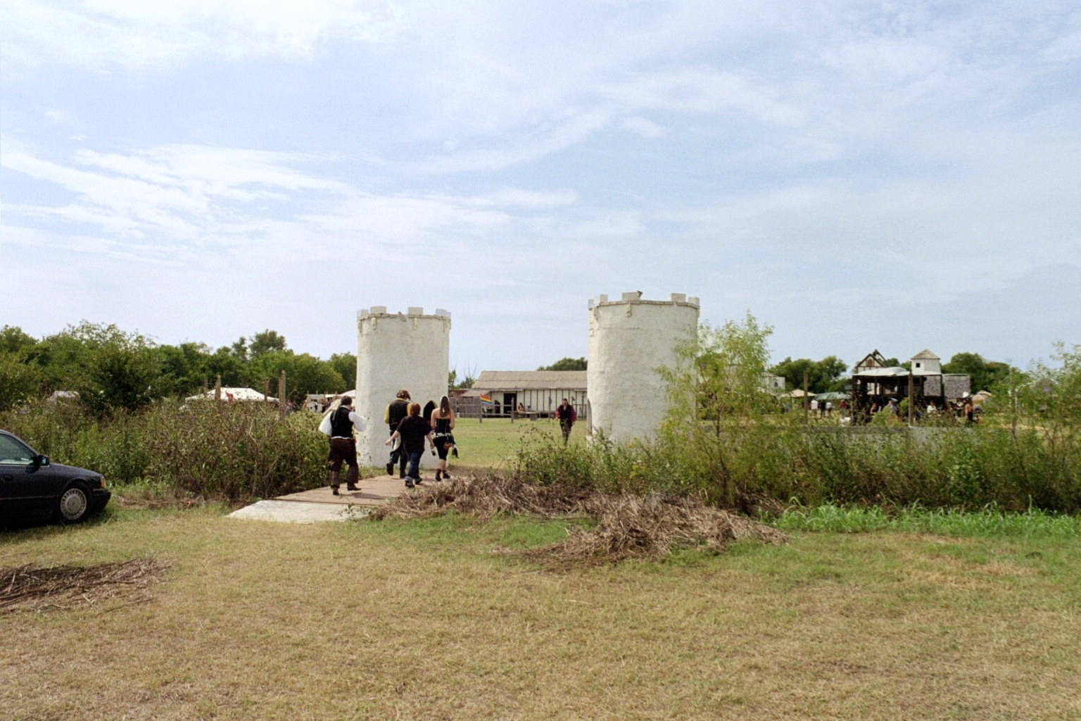 Entrance to Middlefaire five miles north of Hillsboro, Texas. Photo shows people entering the first Texas Pirate Festival held at the Middlefaire site.